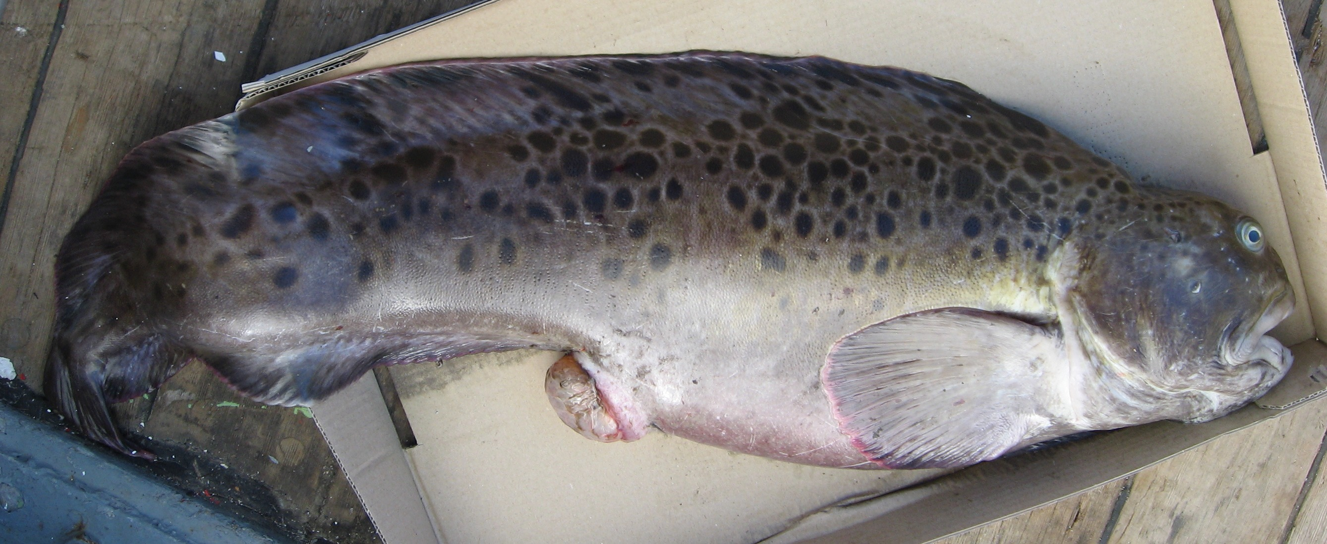 Recently caught individual of Spotted wolffish (Anarhichas minor) in Upernavik Kujalleq, Greenland.